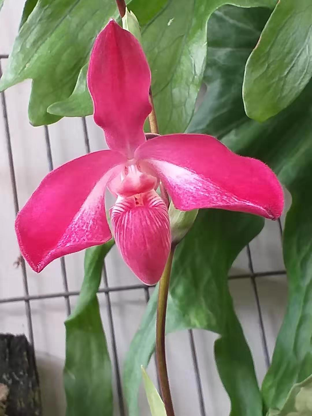 phrag. kovachii x dalessandroi. Taichung, Taiwan.